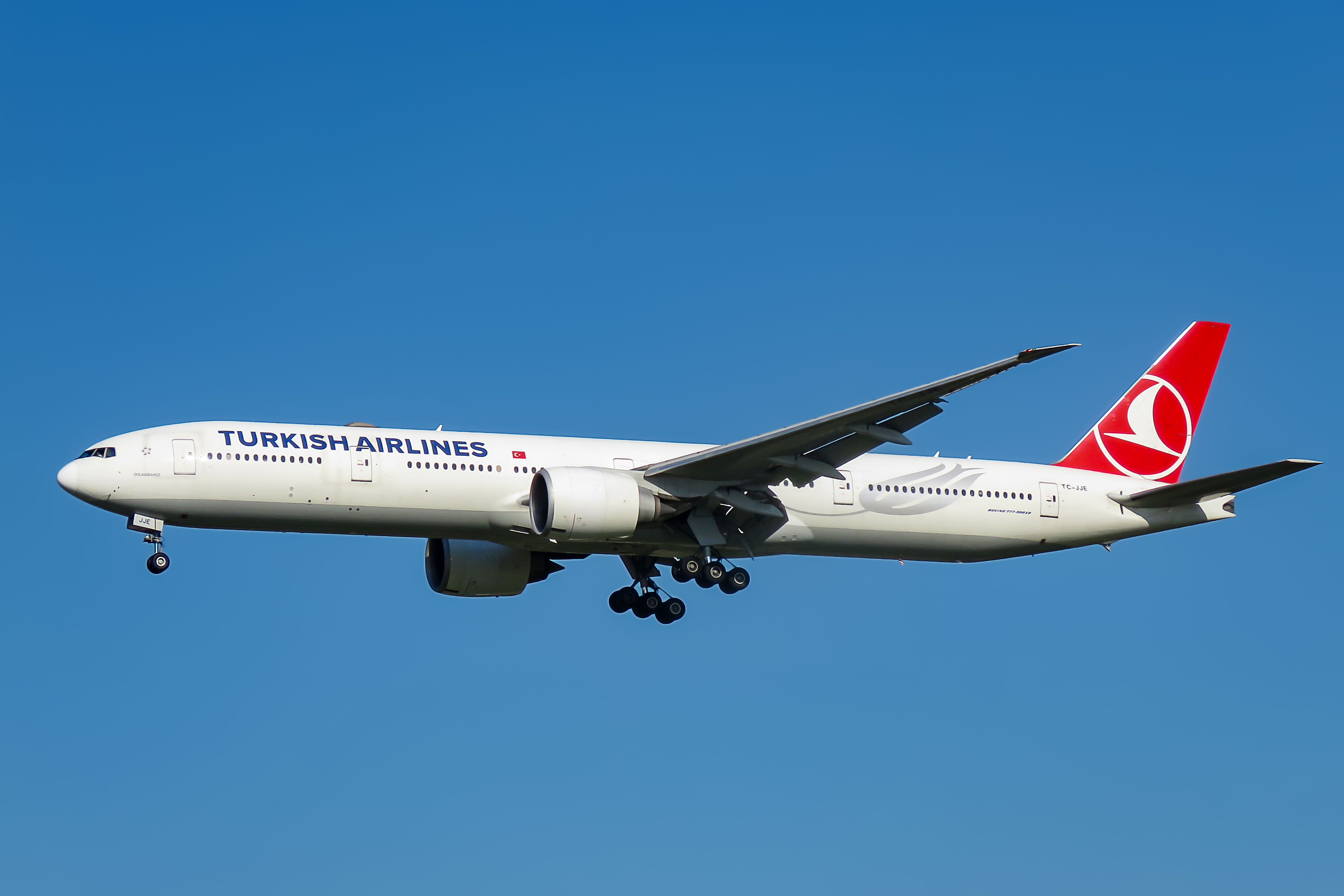 Turkish 20 from Istanbul.